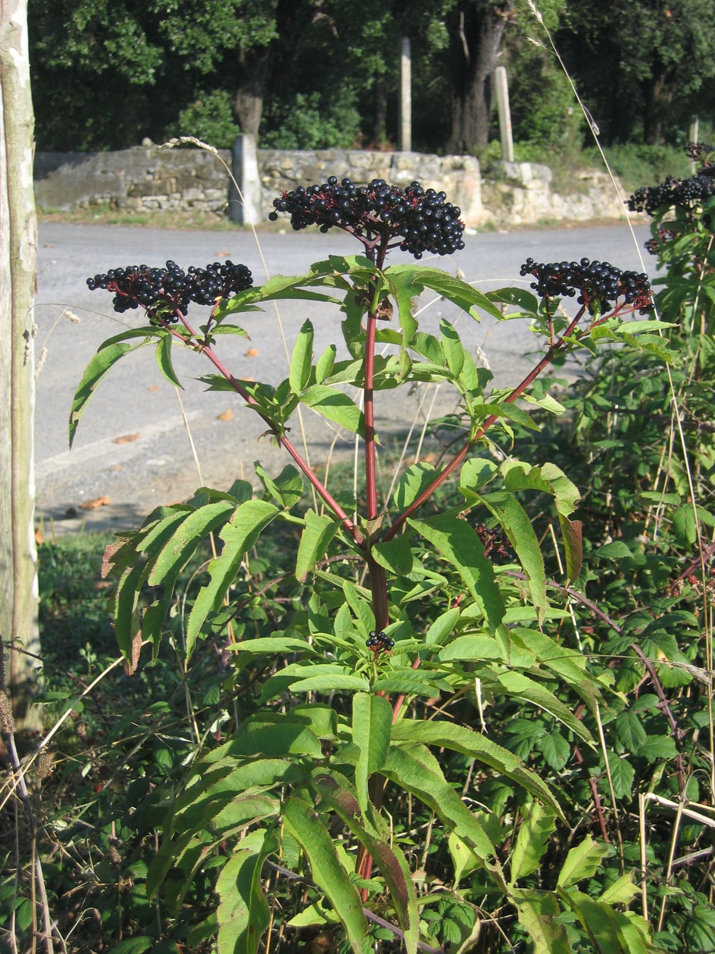 Sambucus ebulus. This photograph was taken on 2009-08-27 at Getxo in the Bizkaia province of the Basque Country (Europe), using a Canon PowerShot S50 camera. The original size was 1944x2592 pixels, it was reduced to the present size (1458x1944 pixels) using the IrfanView freeware program.